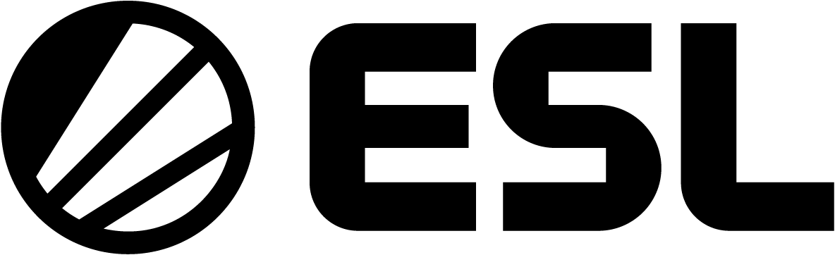 ESL Logo